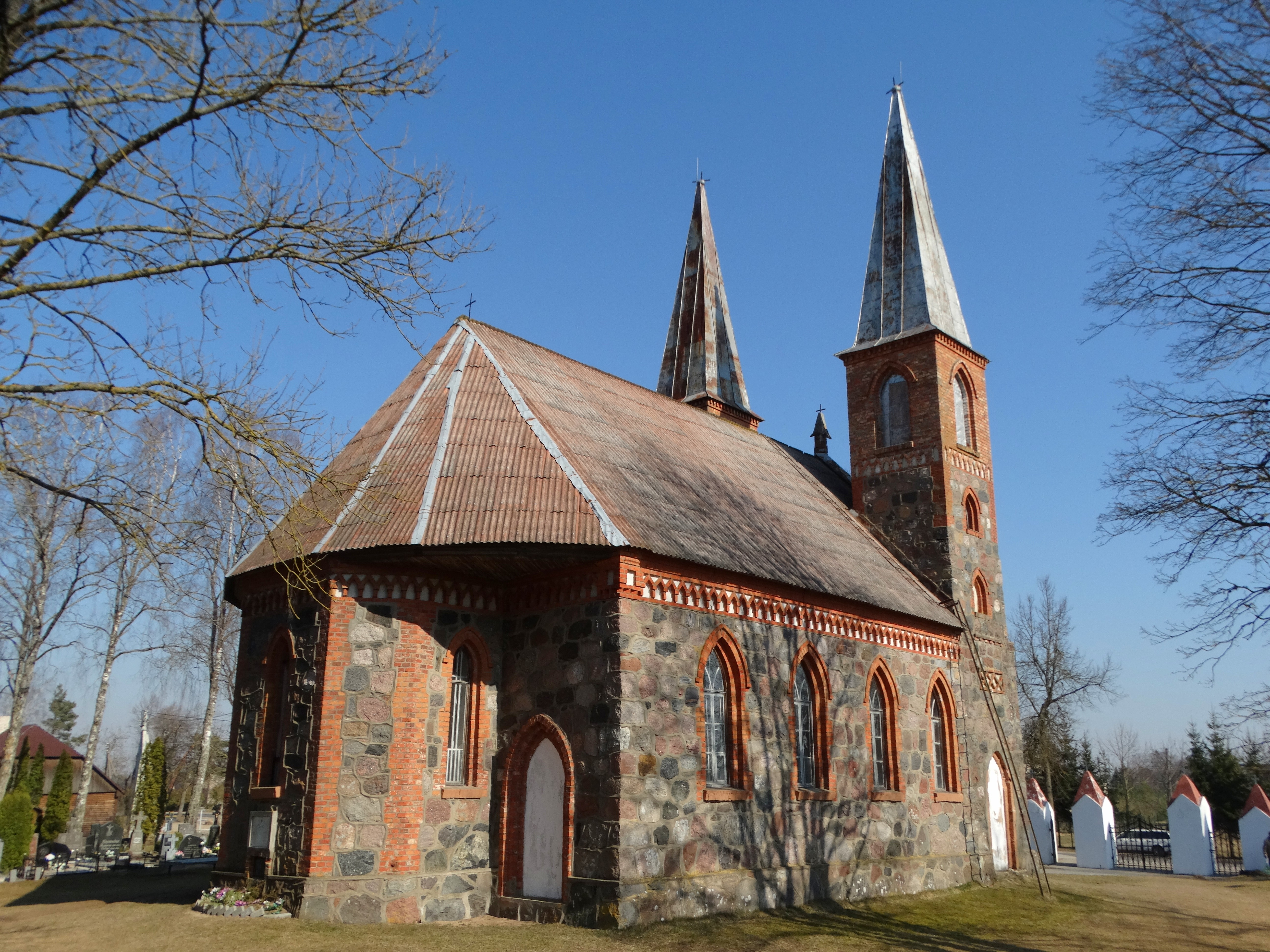 Church of the Providence of God in Kaunatava, Telšiai district, Lithuania